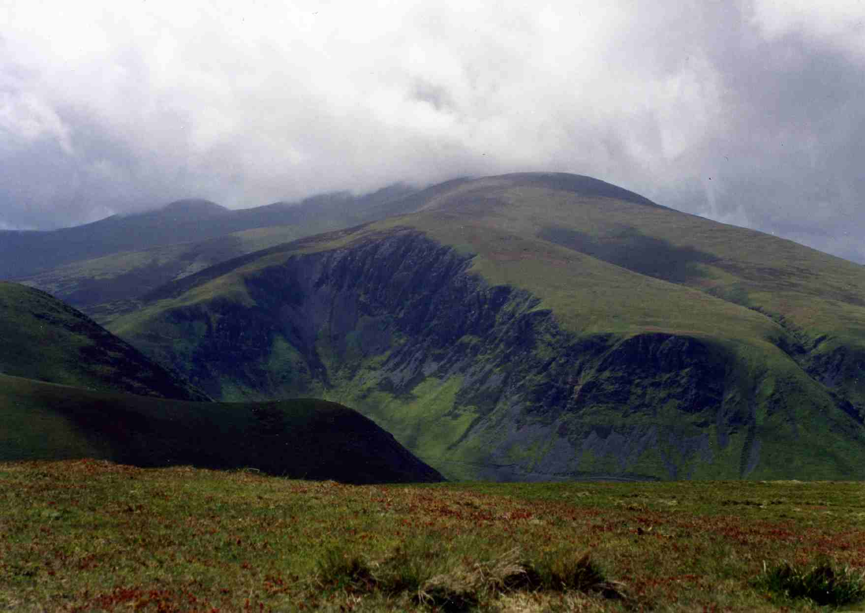 Bakestall and Dead Crags with the bulk of Skiddaw behind in cloud. Seen from Great Cockup 3 km to the north. Personal picture taken by Mick Knapton in May 1995